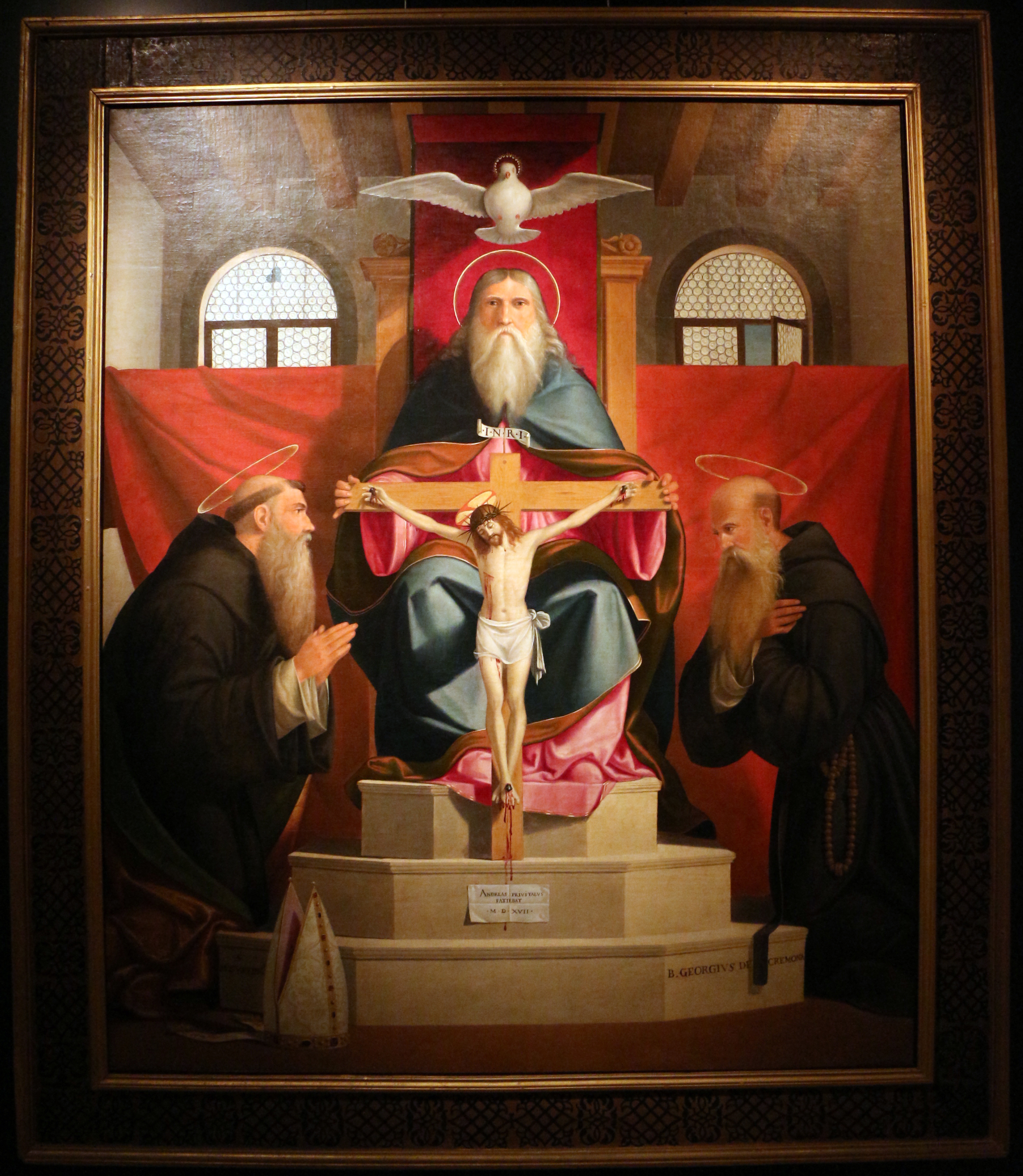 Museo Adriano Bernareggi